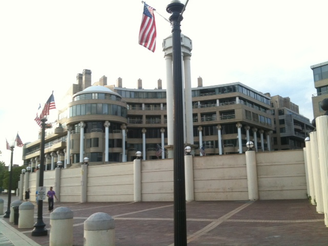 Floodgates in place on the Potomac River side of the Washington Harbour office, retail, and luxury residential complex on the waterfornt in the Georgetown neighborhood in ashington, D.C., in the United States. The floodgates are up in anticipation of Hurricane Irene.